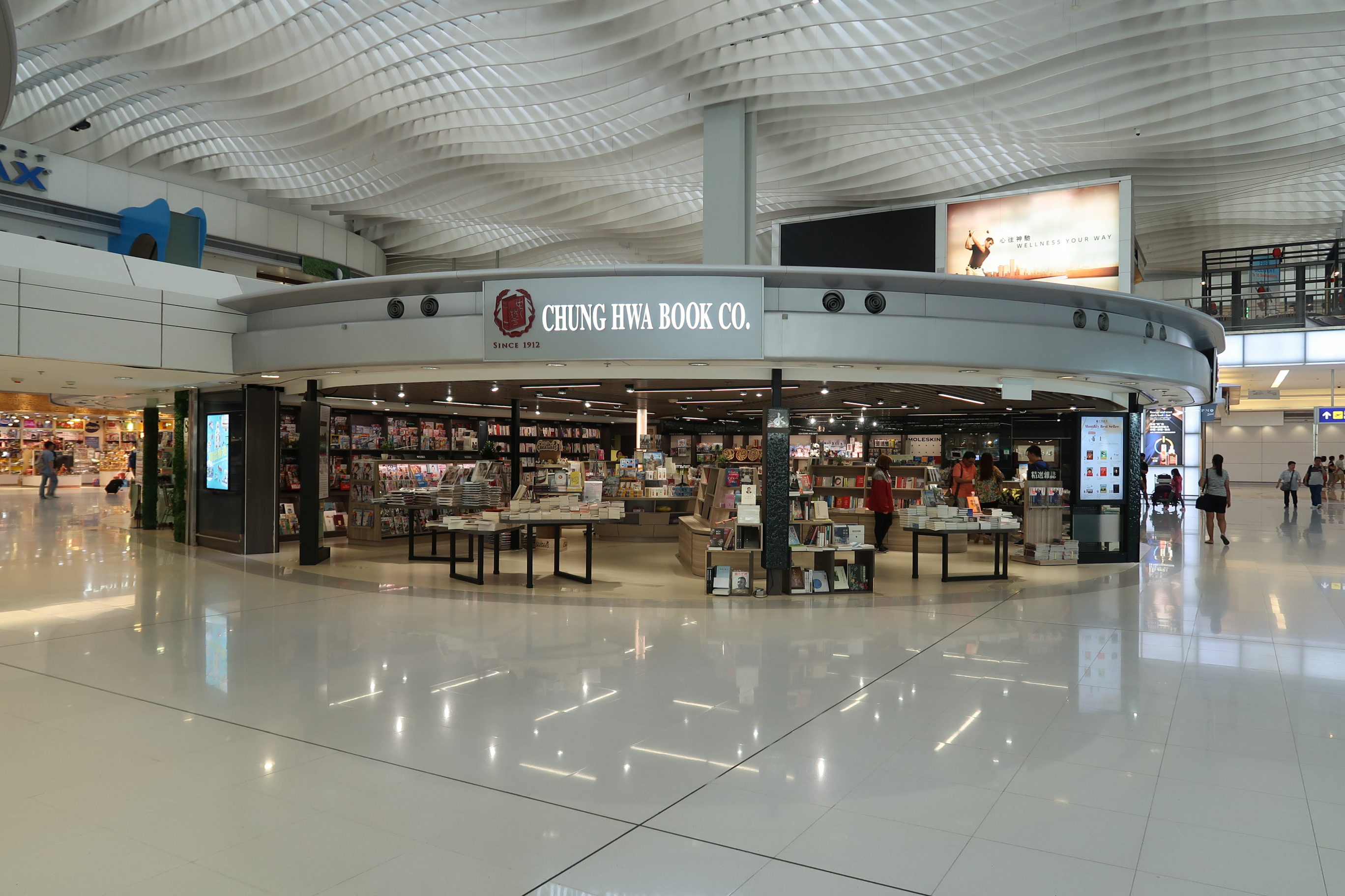 Chung Hwa Book Company in HKIA Terminal 2